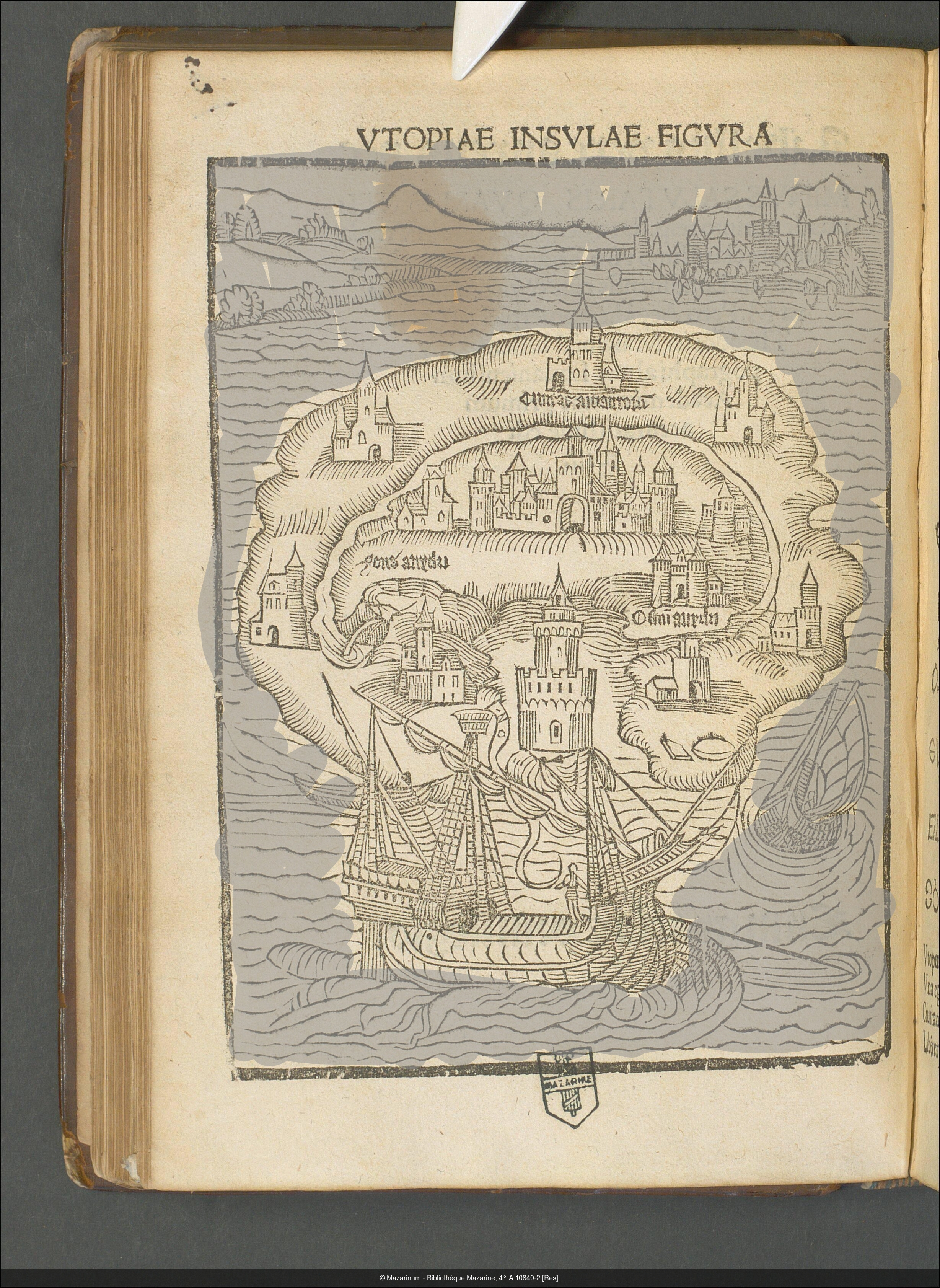 This is the map of Utopia island. Some critics and specialists argue that a skull was drawn and hide in the woodcut. (This map is the 1516 one, first edition)